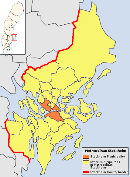 Overview map of Metropolitan Stockholm. The Stockholm Municipality is marked in orange, and other municipalities in Metropolitan Stockholm marked in yellow.